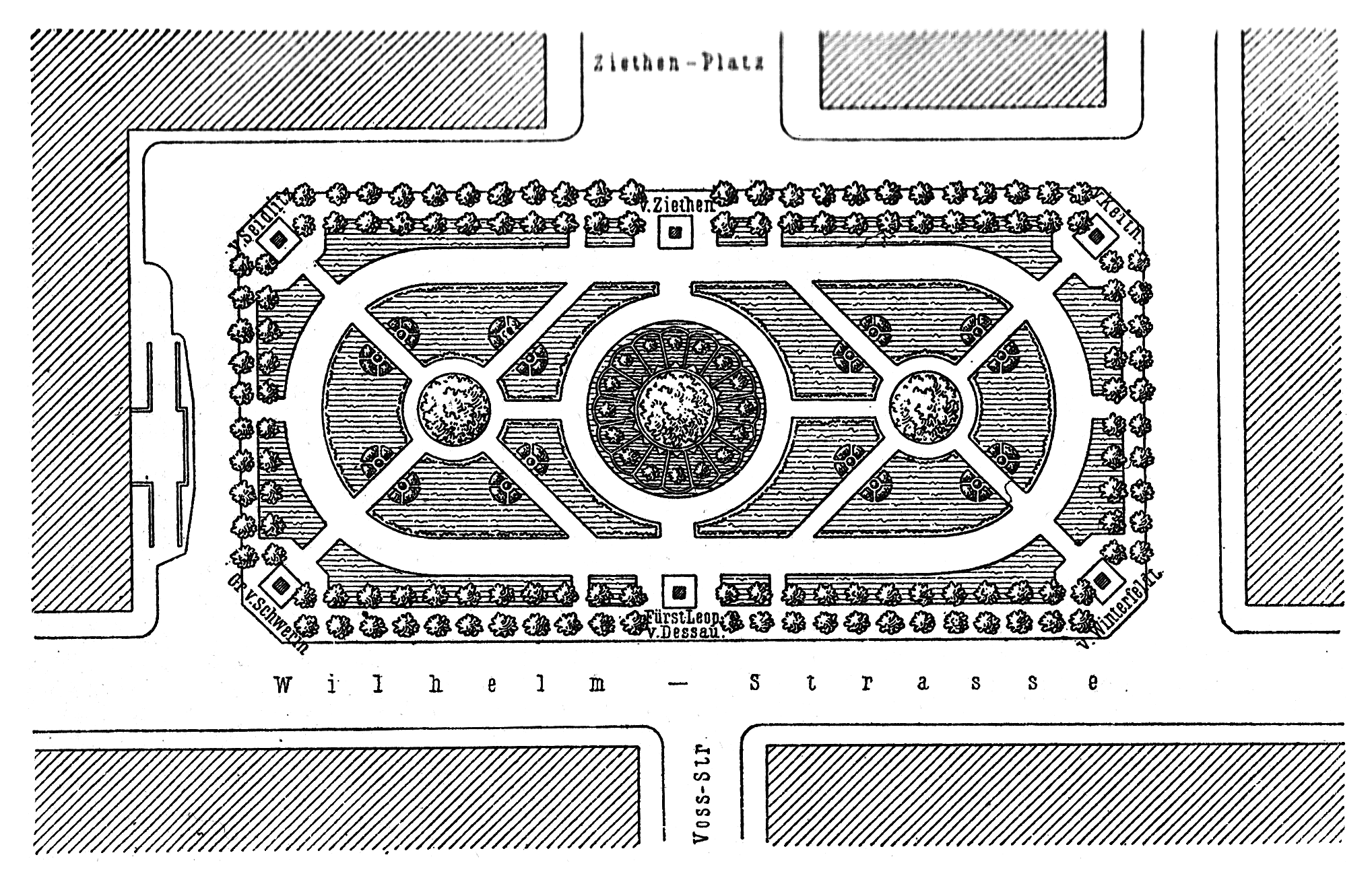 Berlin - Wilhelmplatz, situation plan around 1900